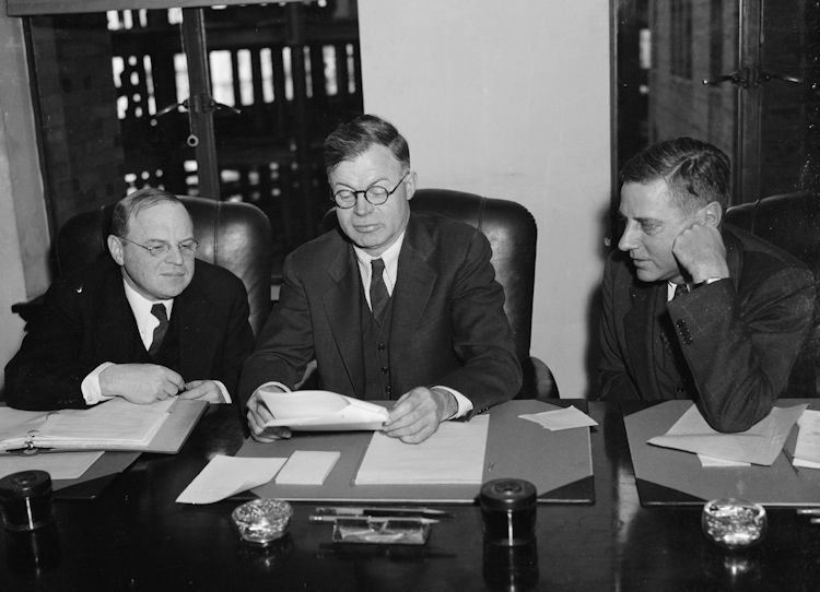 National Labor Relations Board (NLRB) Member William S. Leiserson (left), Chairman J. Warren Madden, and Member Edwin S. Smith (right) during testimony before the U.S. House of Representatives Special Committee to Investigate the National Labor Relations Board (the "Smith Committee") on December 22, 1939, in Washington, D.C.